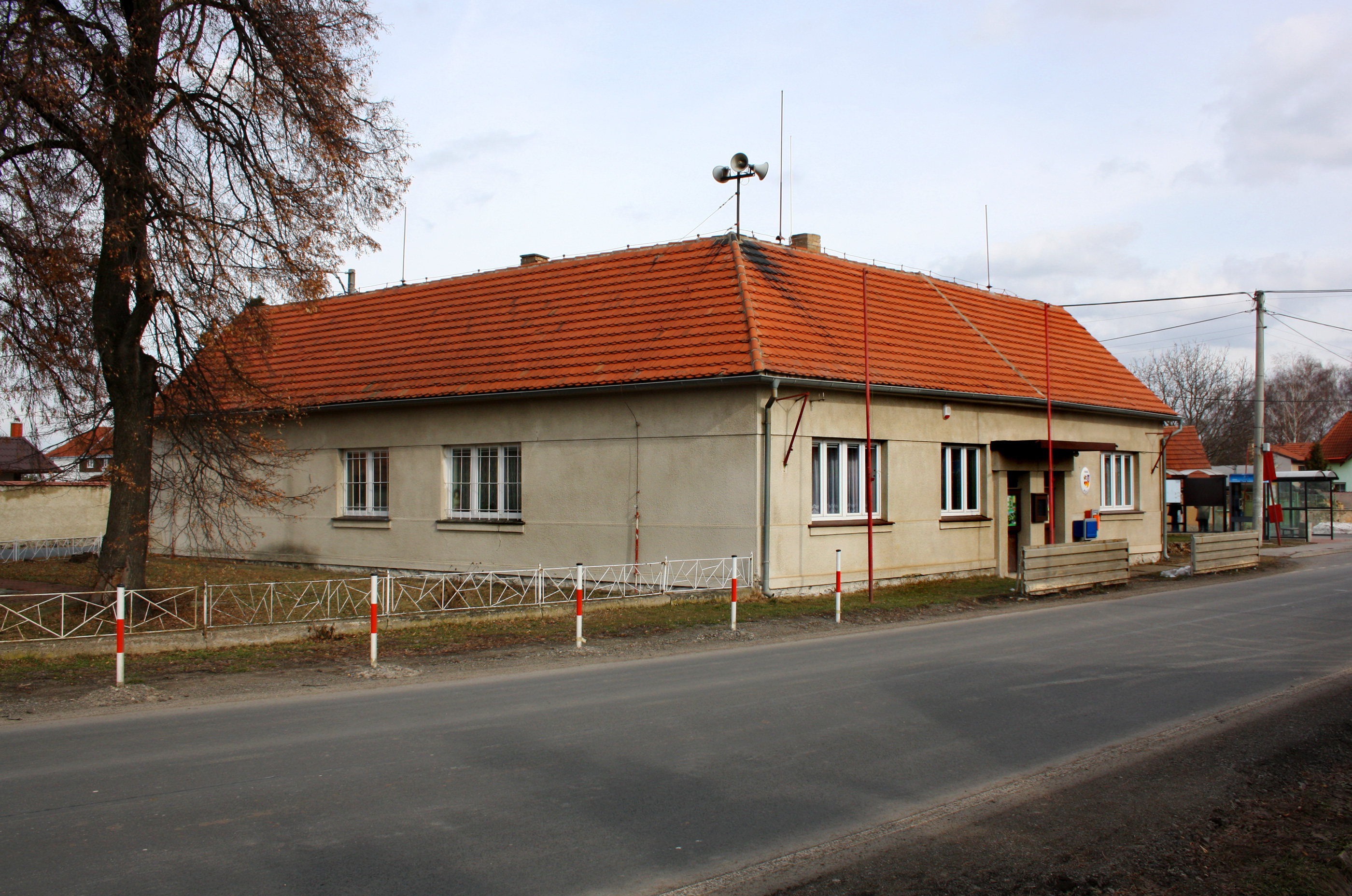 Municipally office in Bašť village, Czech Republic